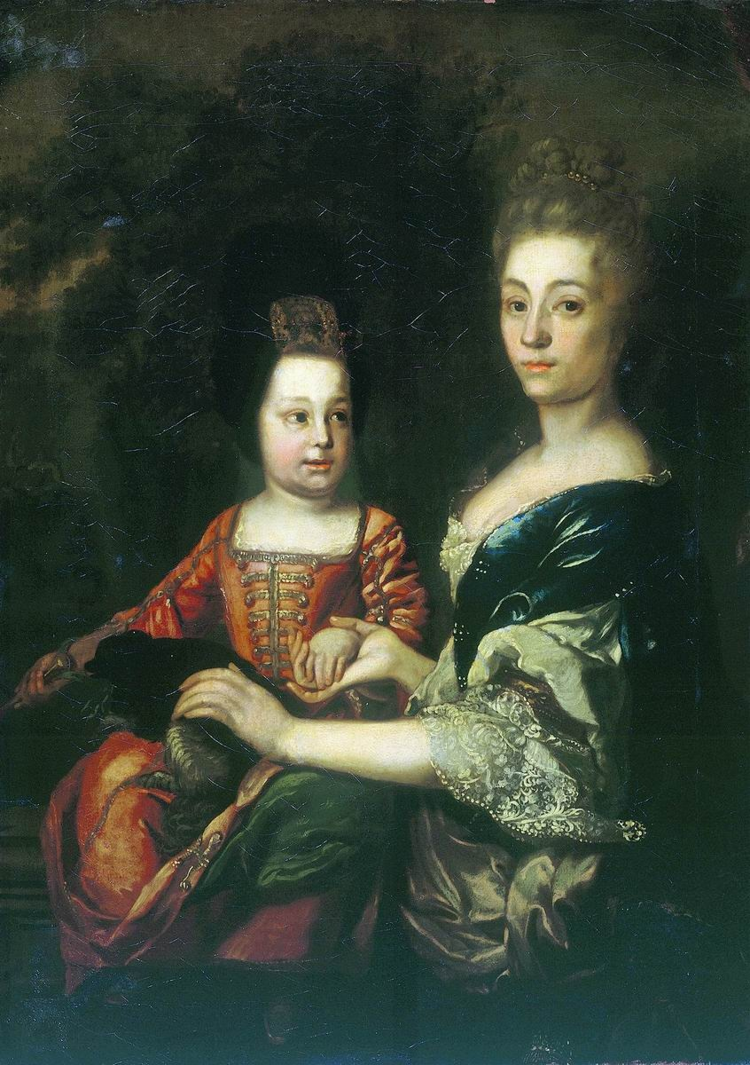 Portrait of the Tsar of Russia Ivan VI Antonovich (1740-1764) with lady-in-waiting Julia von Mengden